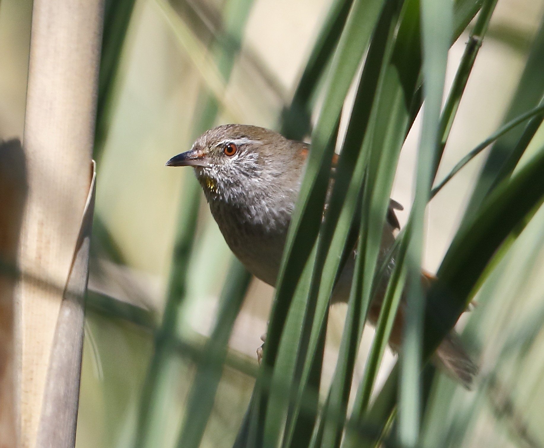 Sulphur-bearded spinetail at Reserva ecológica Costanera Sur - Buenos Aires - Argentina